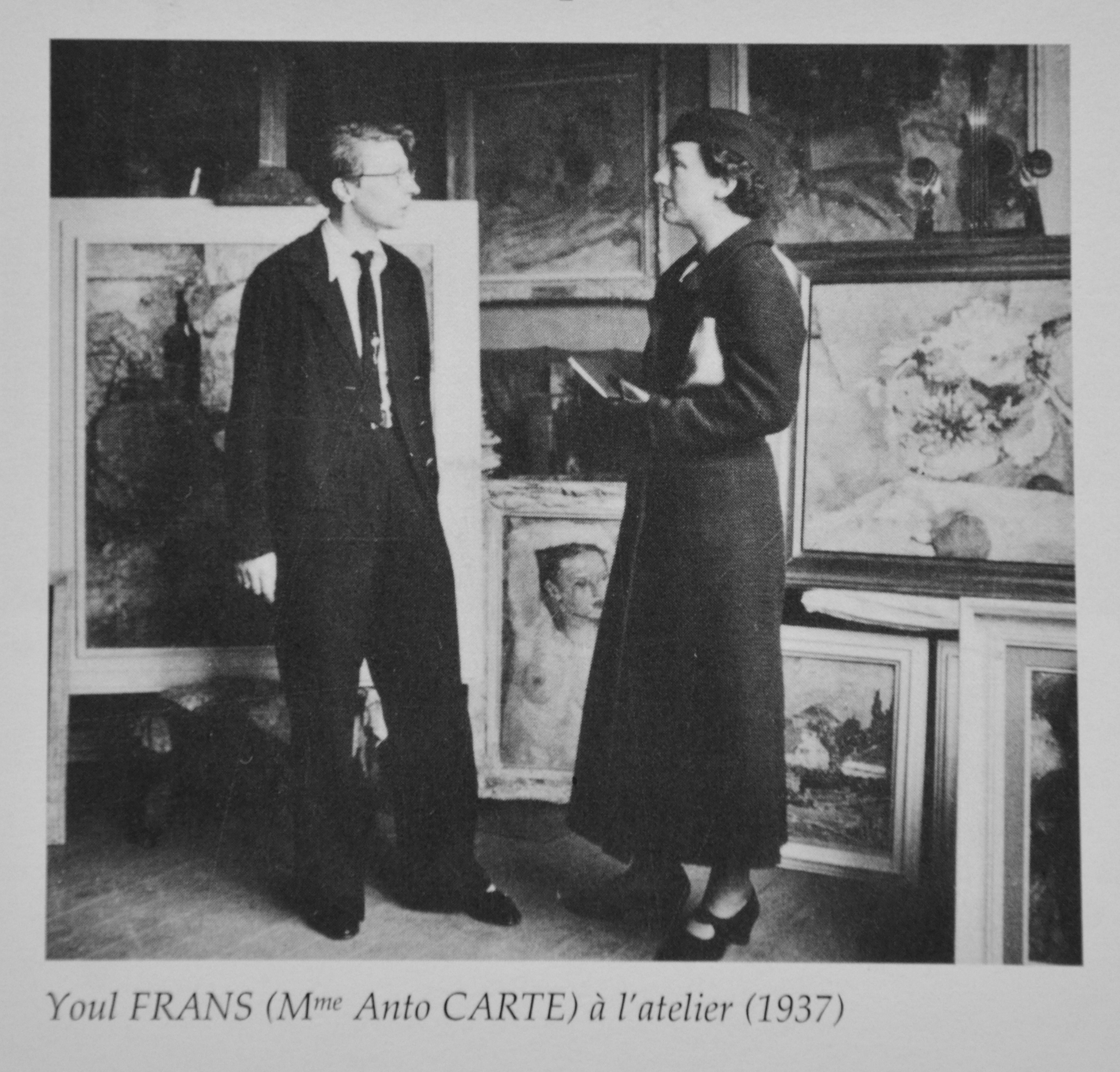 In the Eliane de Meuse's studio. Mrs Youl Frans was responsible for selecting the works of the artists choosen to represent the Belgian art at international exhibitions organized by the Pittsburgh's Carnegie Institute.